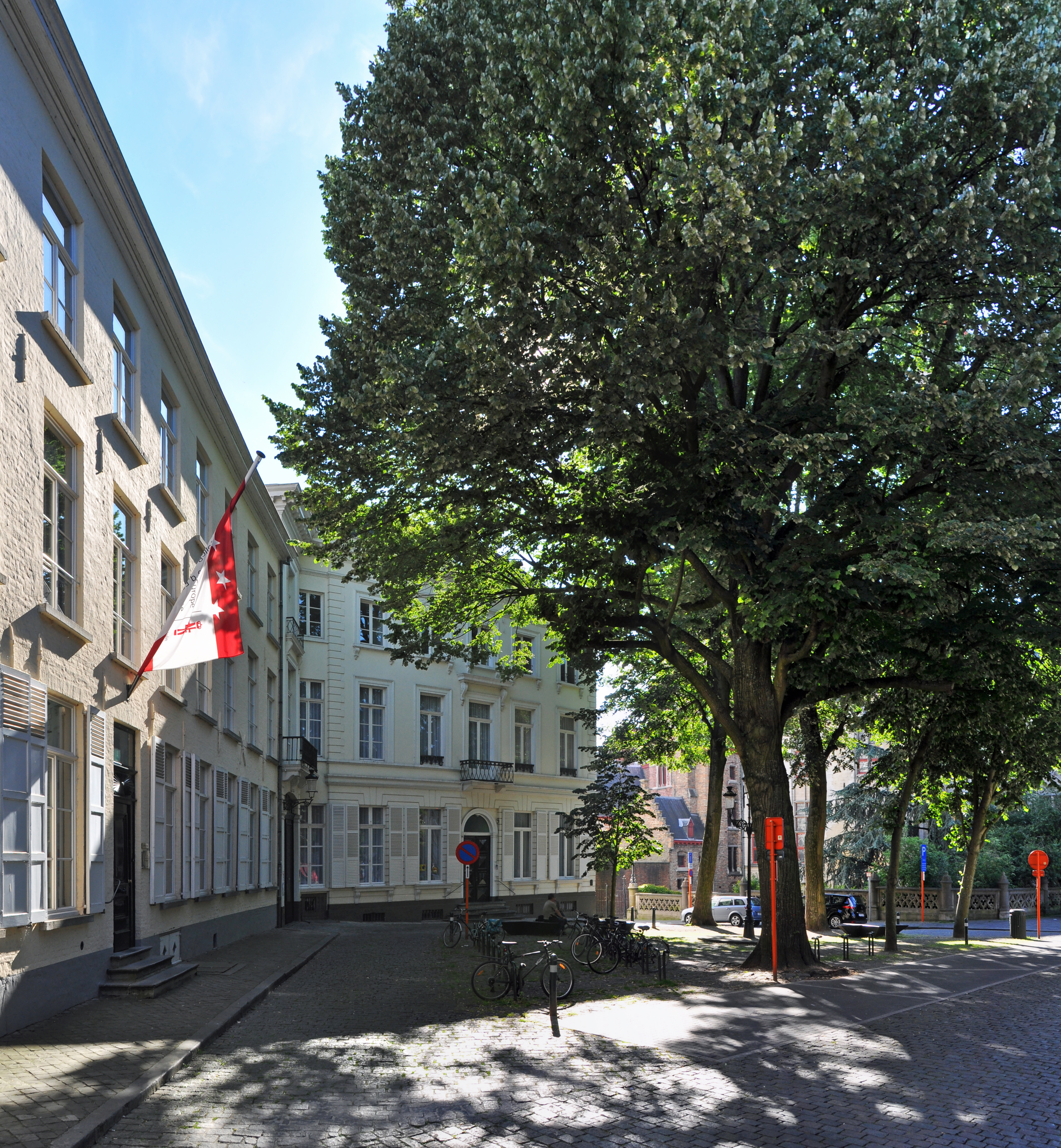 Bruges (Belgium): Biskajersplein